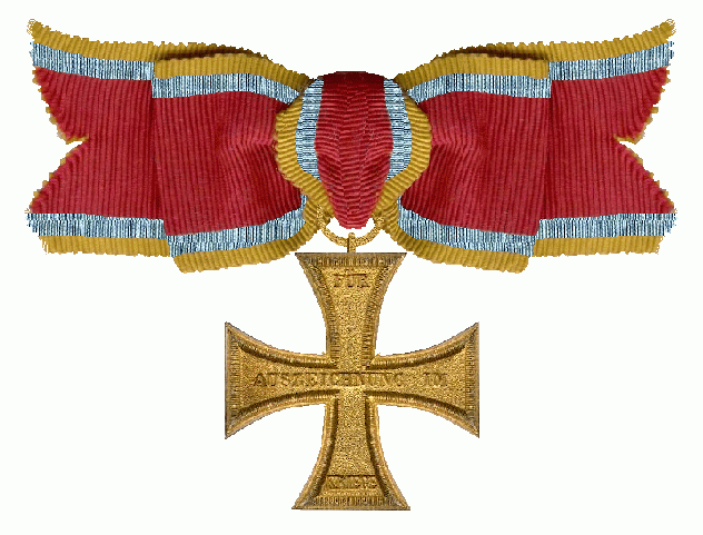 Cross of Military Merit Mecklenburg Schwerin. Civilian ribon in a bow